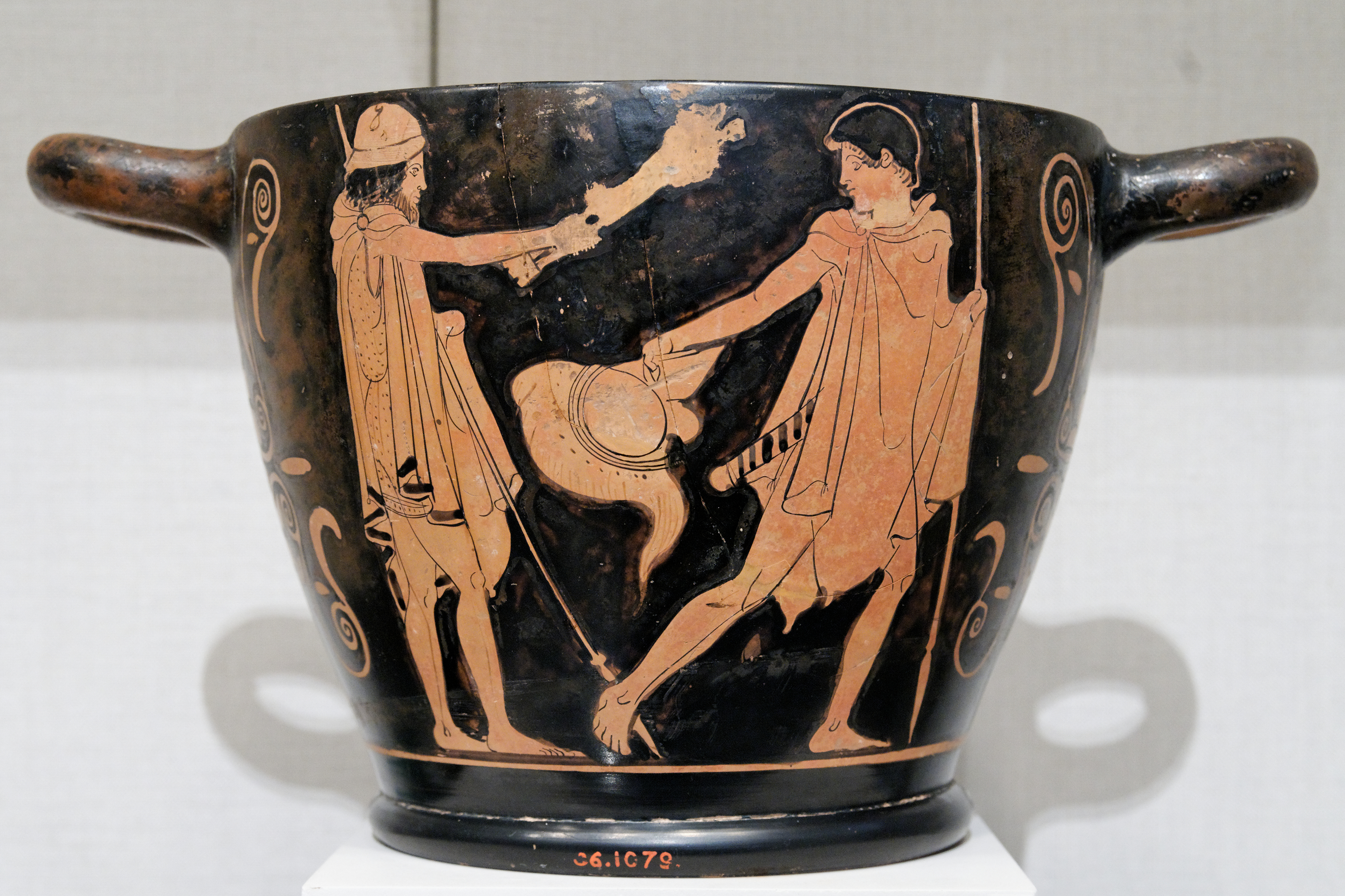 Man and youth carrying an armour, probably a departure scene. Side B of an Attic red-figure skyphos.